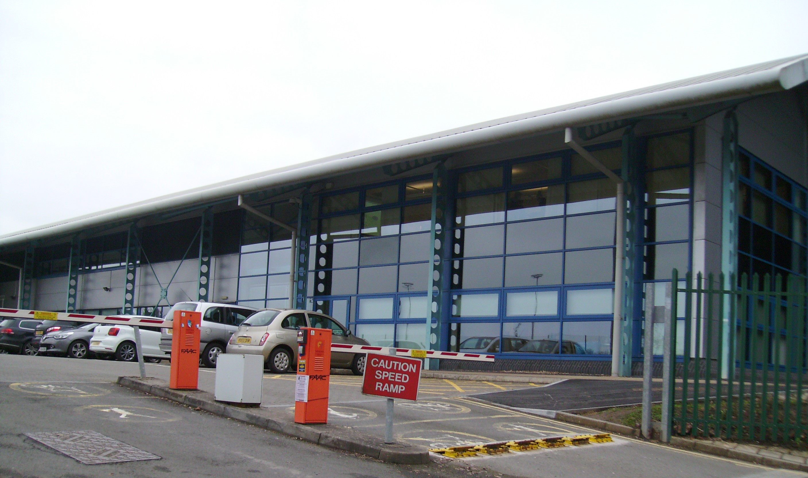 National Indoor Athletic Centre, Cardiff